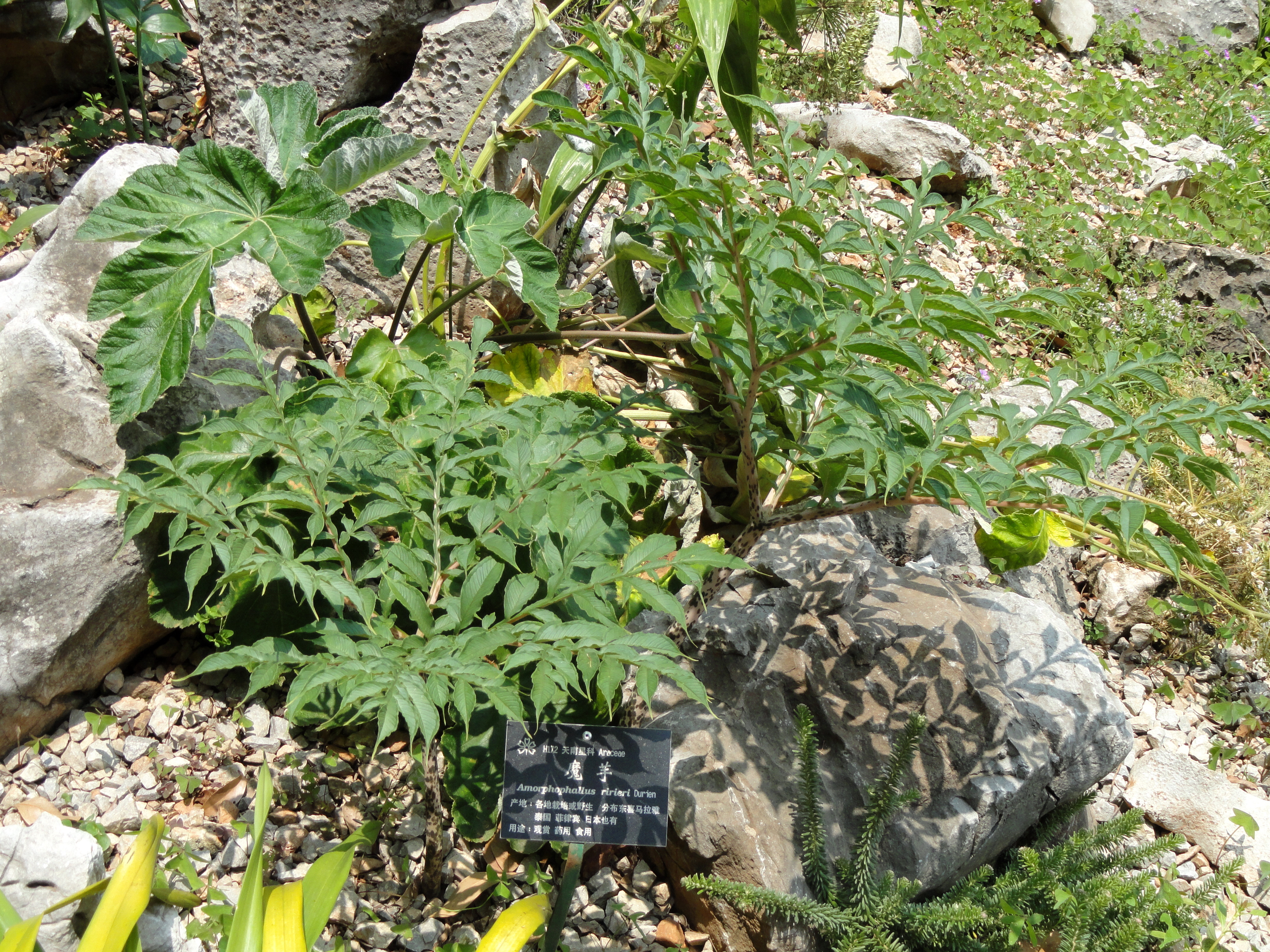 Plant specimen in the Kunming Botanical Garden, Kunming, Yunnan, China.